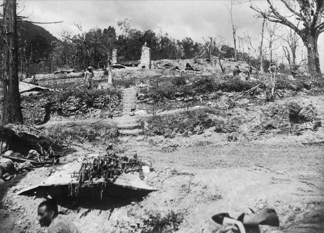 The War in the Far East- the Burma Campaign 1941-1945 The Battle of Imphal-Kohima March - July 1944: The mined tennis court and terraces of the District Commissioner's bungalow in Kohima.